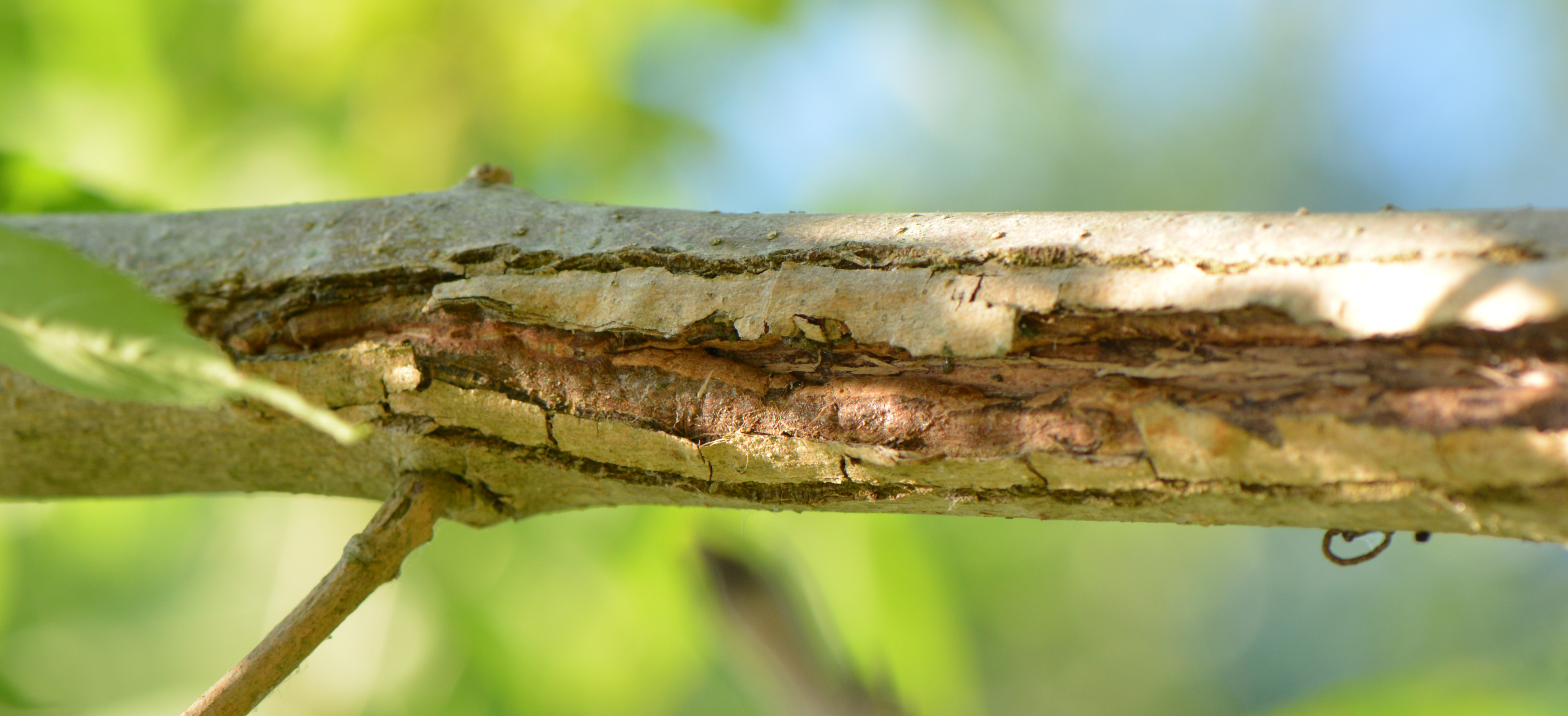 Deadly ash trees on the fortifications of the citadel of Vauban (here on the walls, but the disease is also present in the surroundings). The pathogen is most likely Chalara fraxinea; Location: Lille (Northern France) Parc and Bois de la Citadelle; Summer 2017